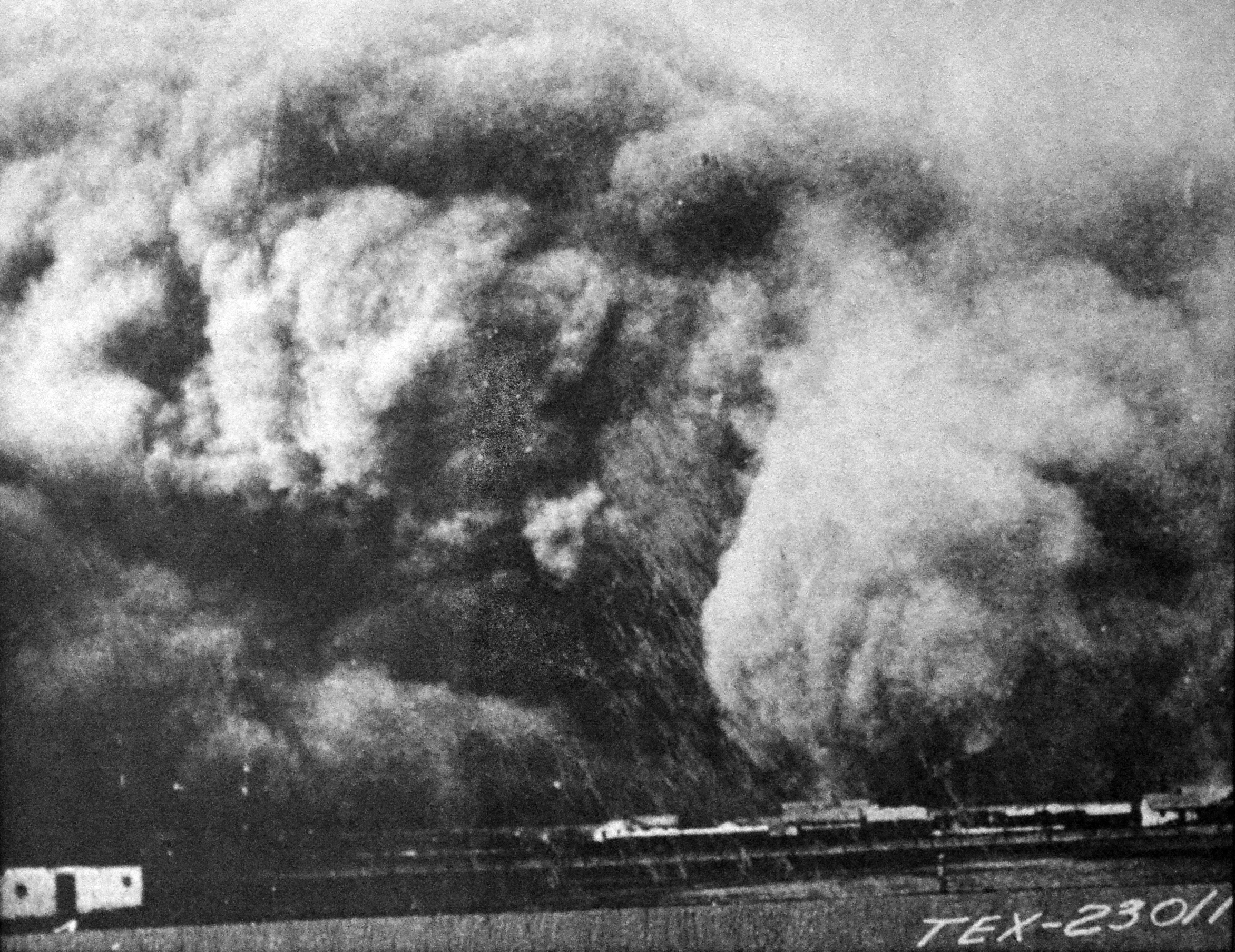 This image or file is a work of a United States Department of Agriculture employee, taken or made as part of that person's official duties. As a work of the U.S. federal government, the image is in the public domain.